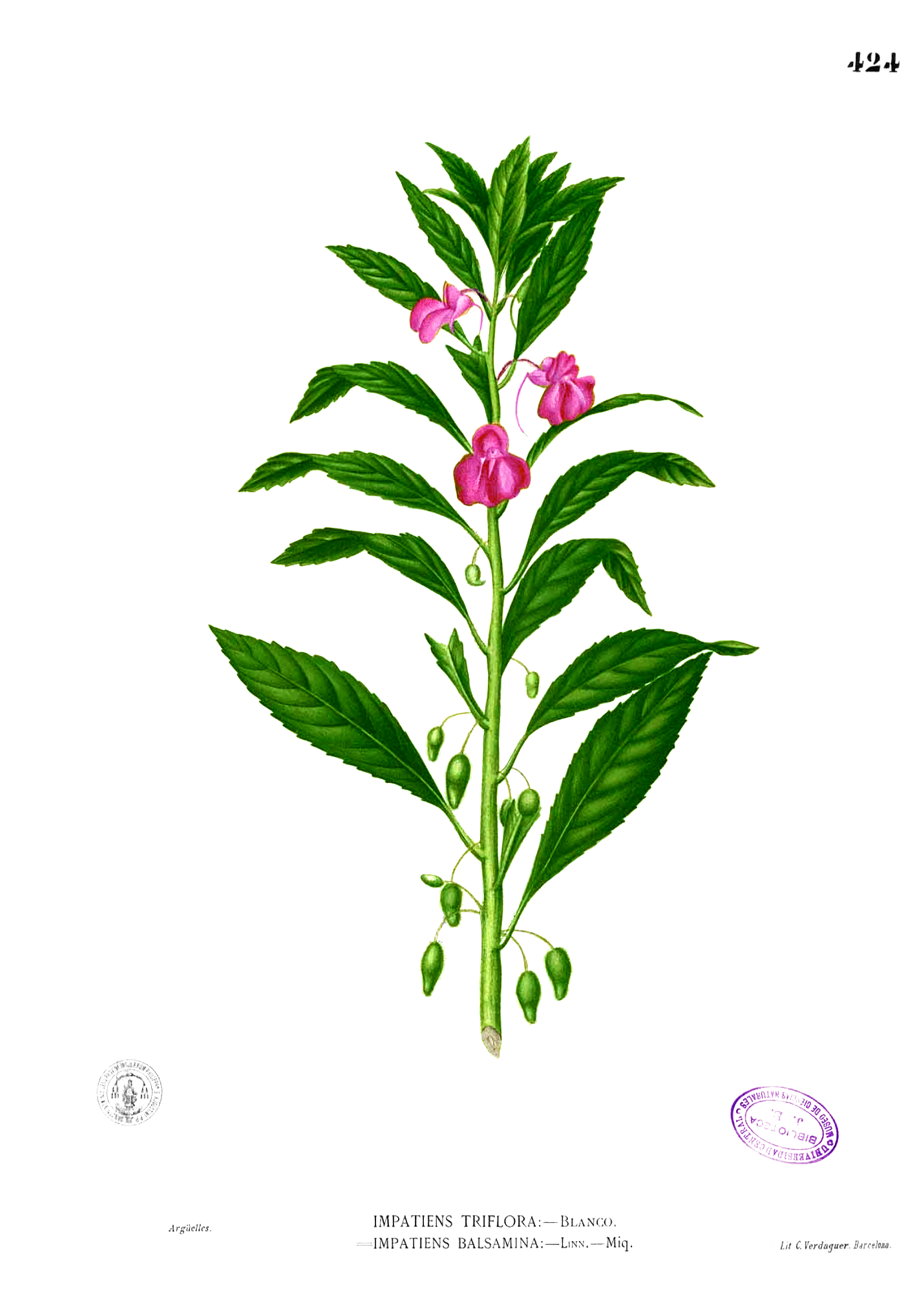 Plate from book